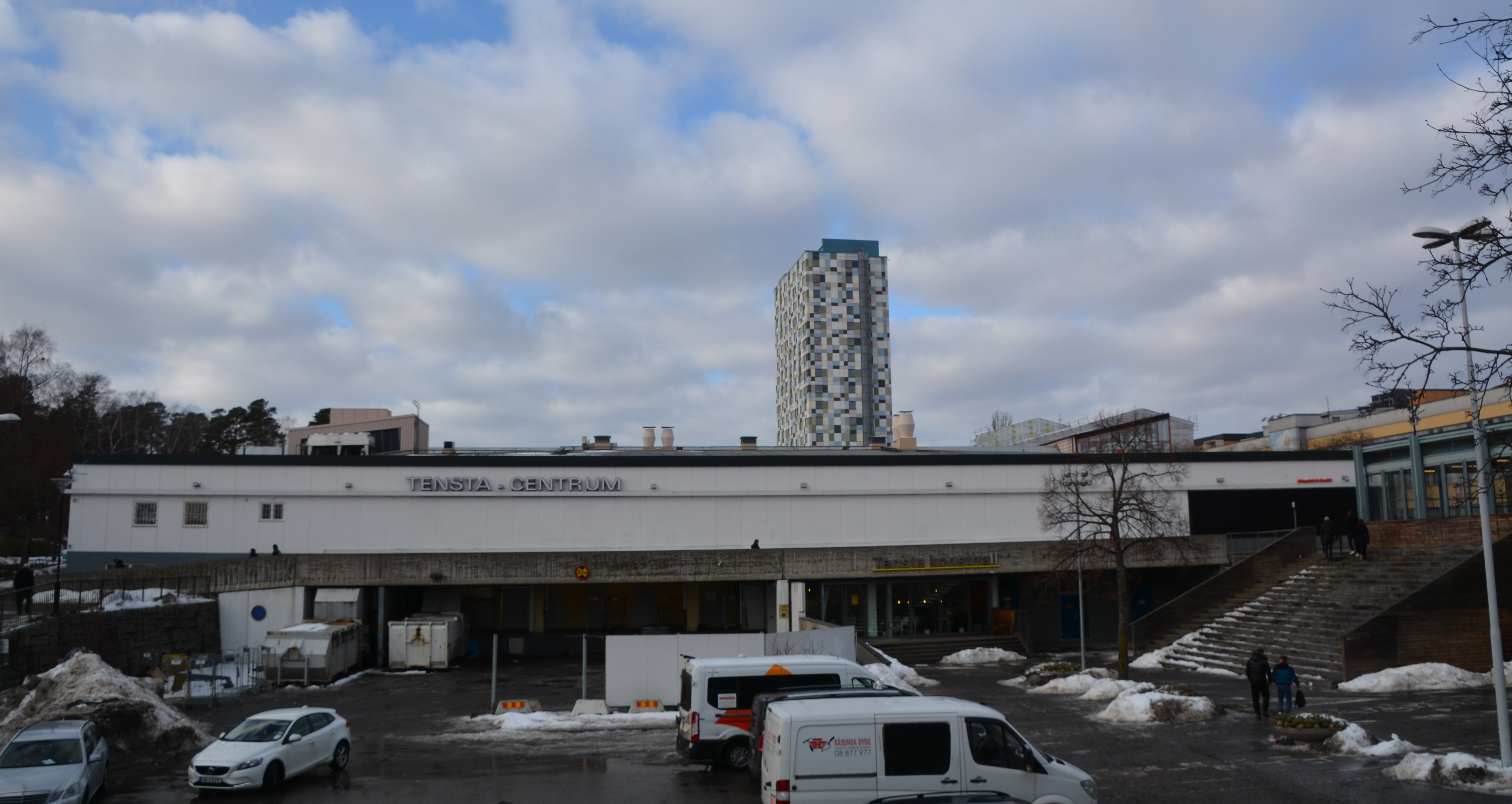 Tensta konsthall